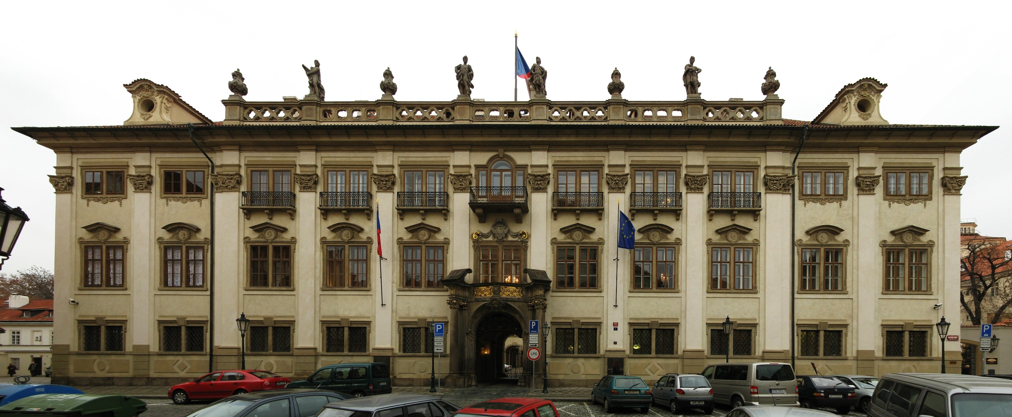 Nostic palace, Ministery od Culture of the Czech Republic